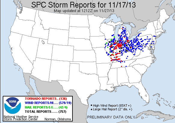 All severe local storm reports received by the Storm Prediction Center on November 17, 2013.